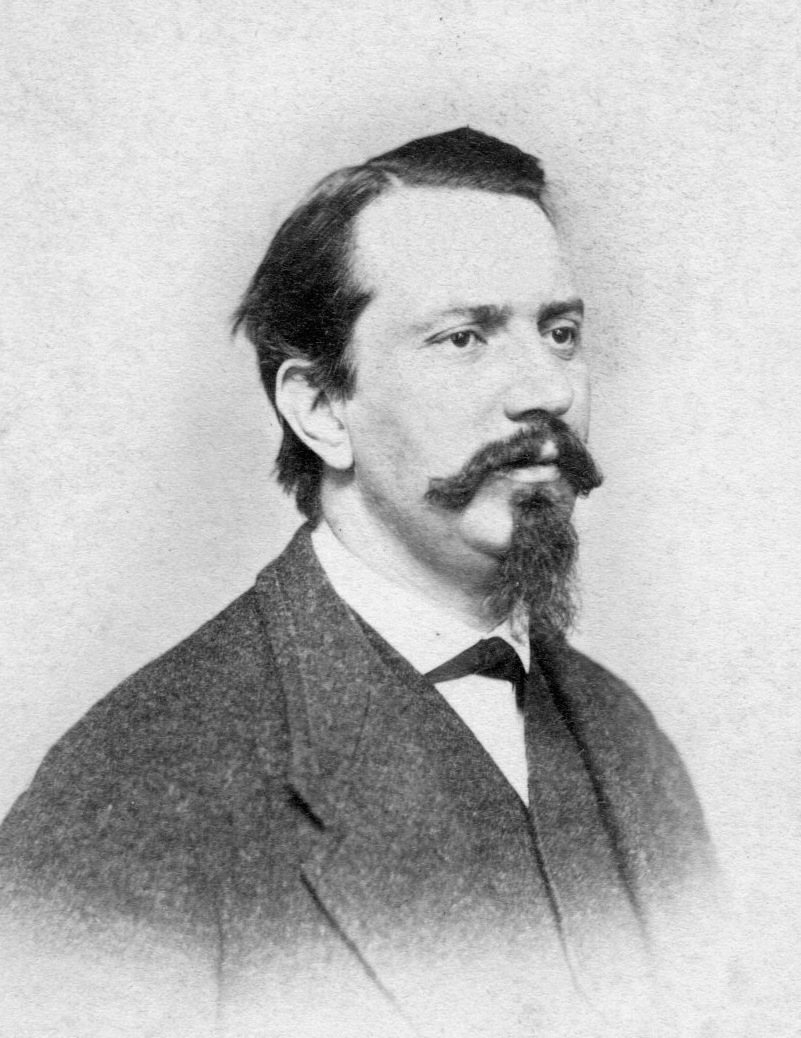 Austin Flint, Jr. (1836–1915) circa 1865-1875